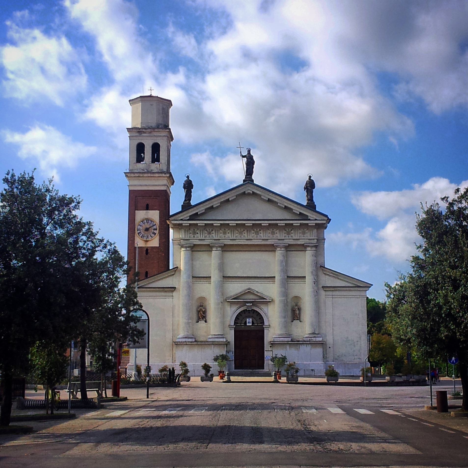 Christian church located in Preganziol, Italy, the Seat of the Parish of Saint Urban, patron saint of the city.